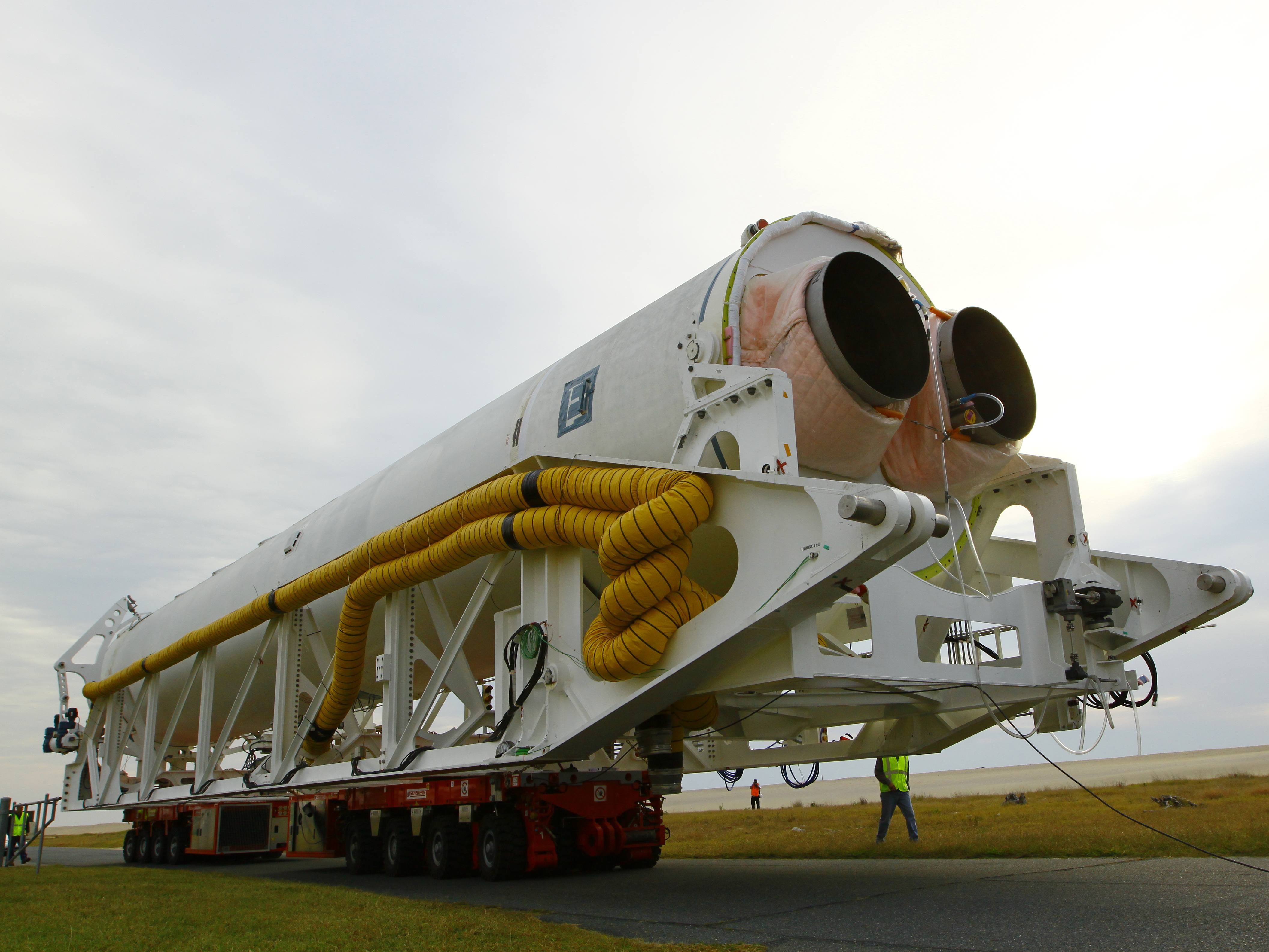 Orbital Sciences Corporation’s Antares rocket rolls out to the launch pad at NASA’s Wallops Flight Facility on the morning of Oct. 1, 2012. Over the next several months, Orbital plans a hot-fire test of the Antares first stage, the maiden flight of an Antares rocket, and a cargo delivery demonstration mission to the International Space Station as part of NASA’s Commercial Orbital Transportation Services.